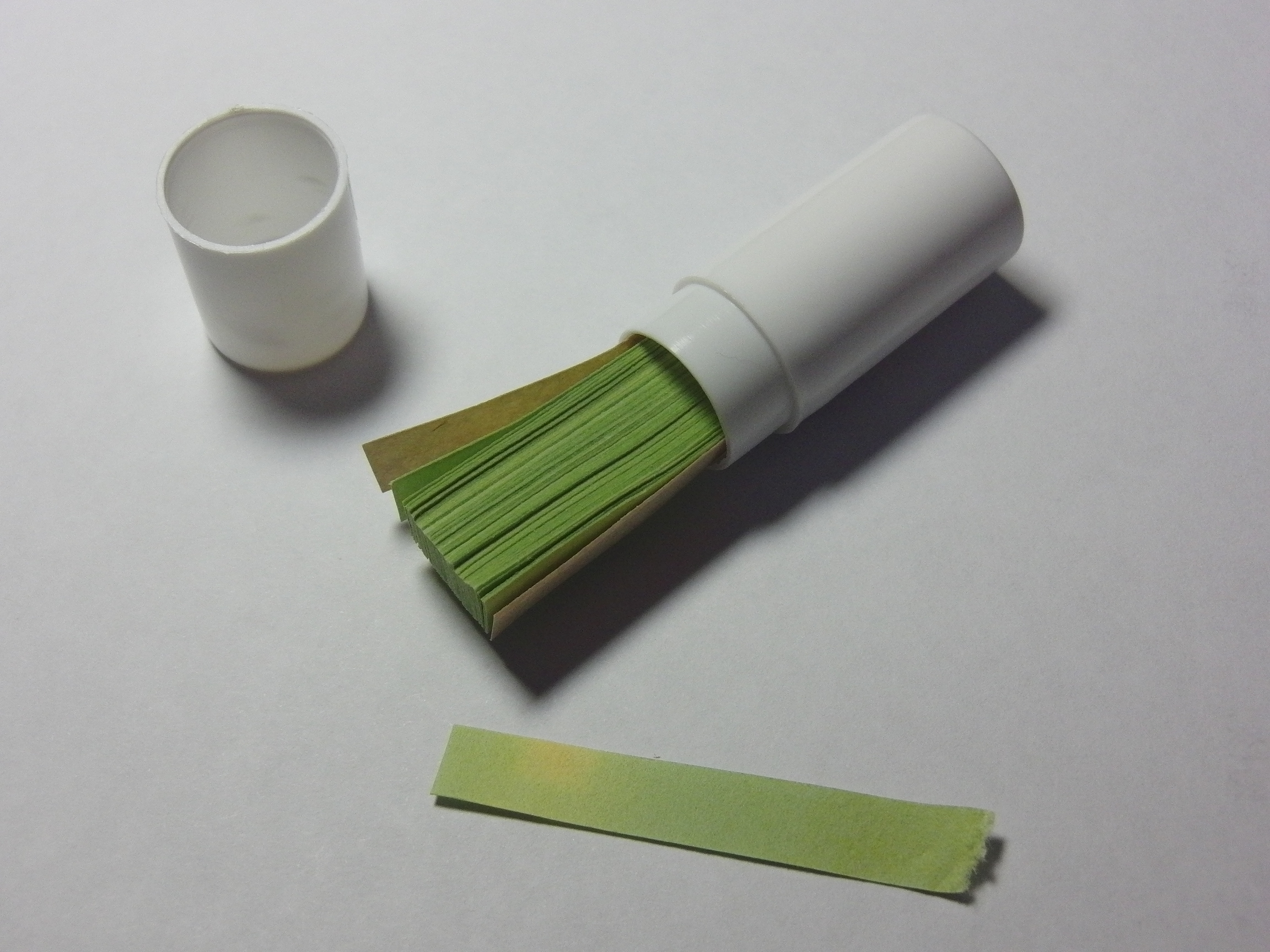 Universal indicator